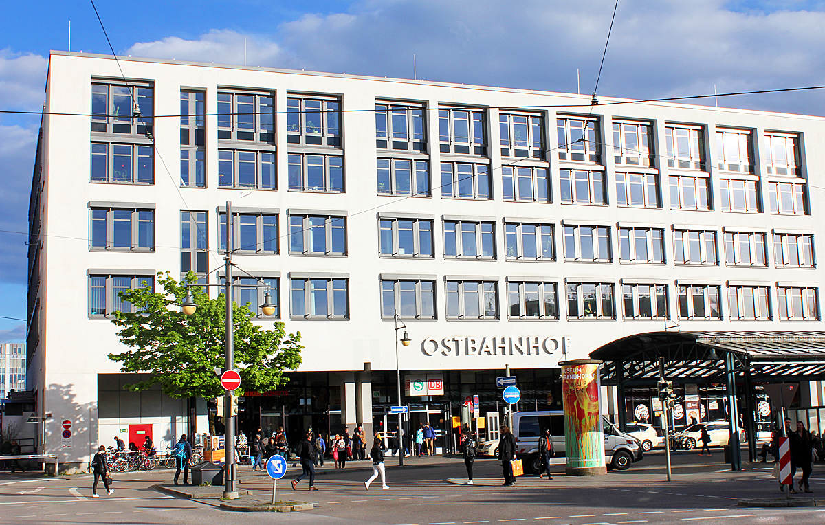 Munich Ostbahnhof Railway Station in May 2017